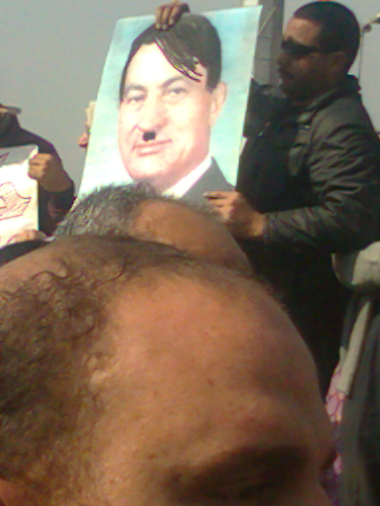 mubaraknazi- public domain.